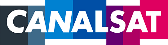 The logo of Canalsat digital platform